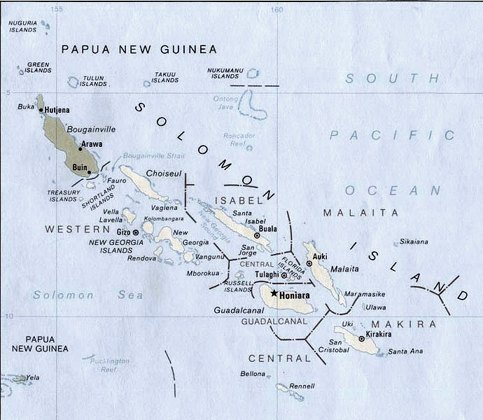 Map of Solomon Islands. According to the University of Texas, "most of the maps scanned by the University of Texas Libraries and served from this web site are in the public domain. No permissions are needed to copy them. You may download them and use them as you wish. A few maps are copyrighted, and are clearly marked as such.". As the image, when downloaded from here was no tagged, the map is PD. Insofar the battle annotation make this necessary, I put this image in the public domain as well.